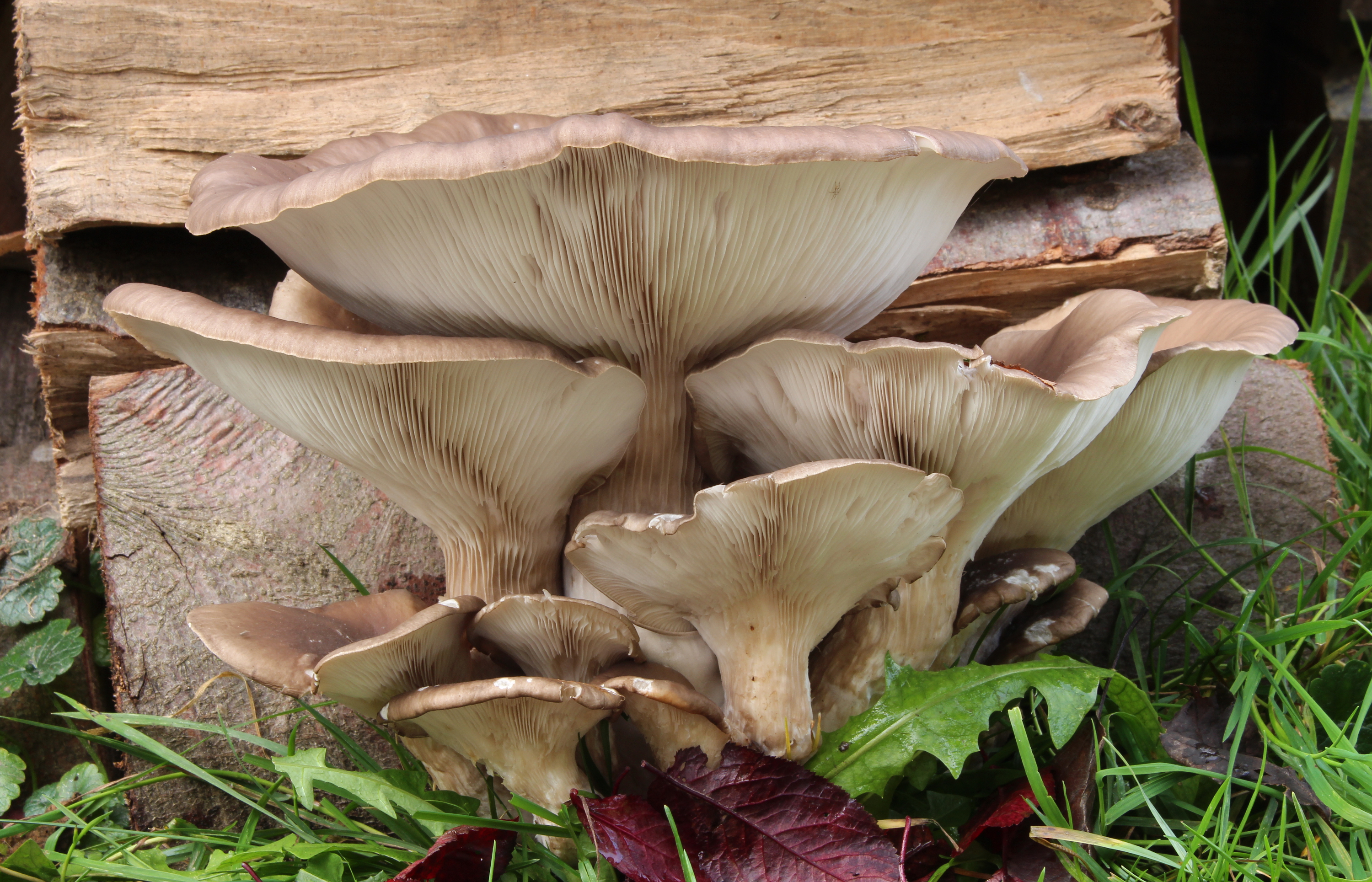 Oyster Mushroom, Pleurotus ostreatus, Family: Pleurotaceae, Location: Germany, Erbach, Ringingen